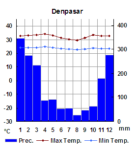 These data are the means of 30 years of 1961-1990.